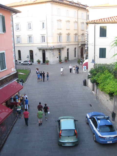 Piazza Gioberti in Grosseto